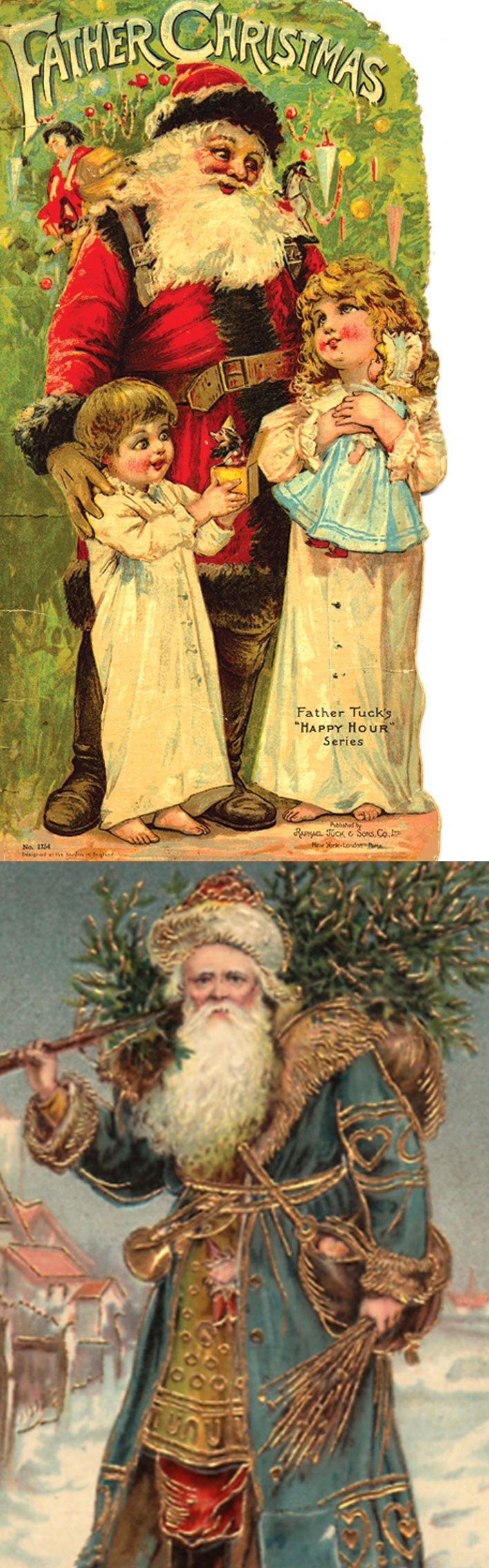 Two of the most common depictions of Father Christmas (as opposed to Santa Claus) in Victorian England.